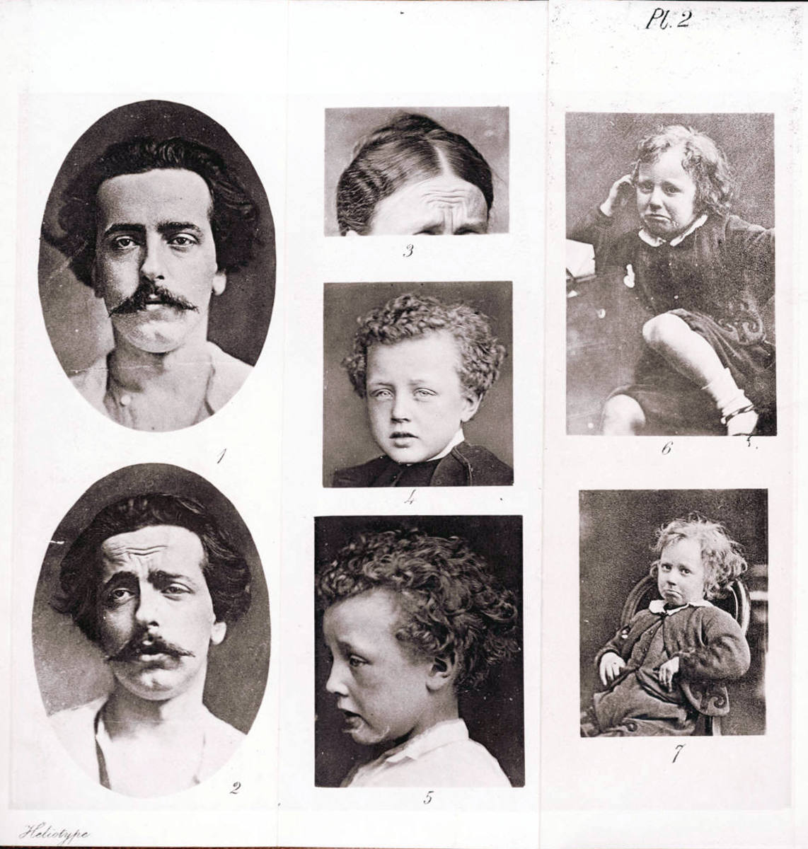 Photographs illustrating emotions of grief from Charles Darwin's work "The Expressions of the Emotions in Man and Animals," published by J. Murray, London, 1872. Image courtesy of the Beinecke Rare Book & Manuscript Library, Yale University.[1]